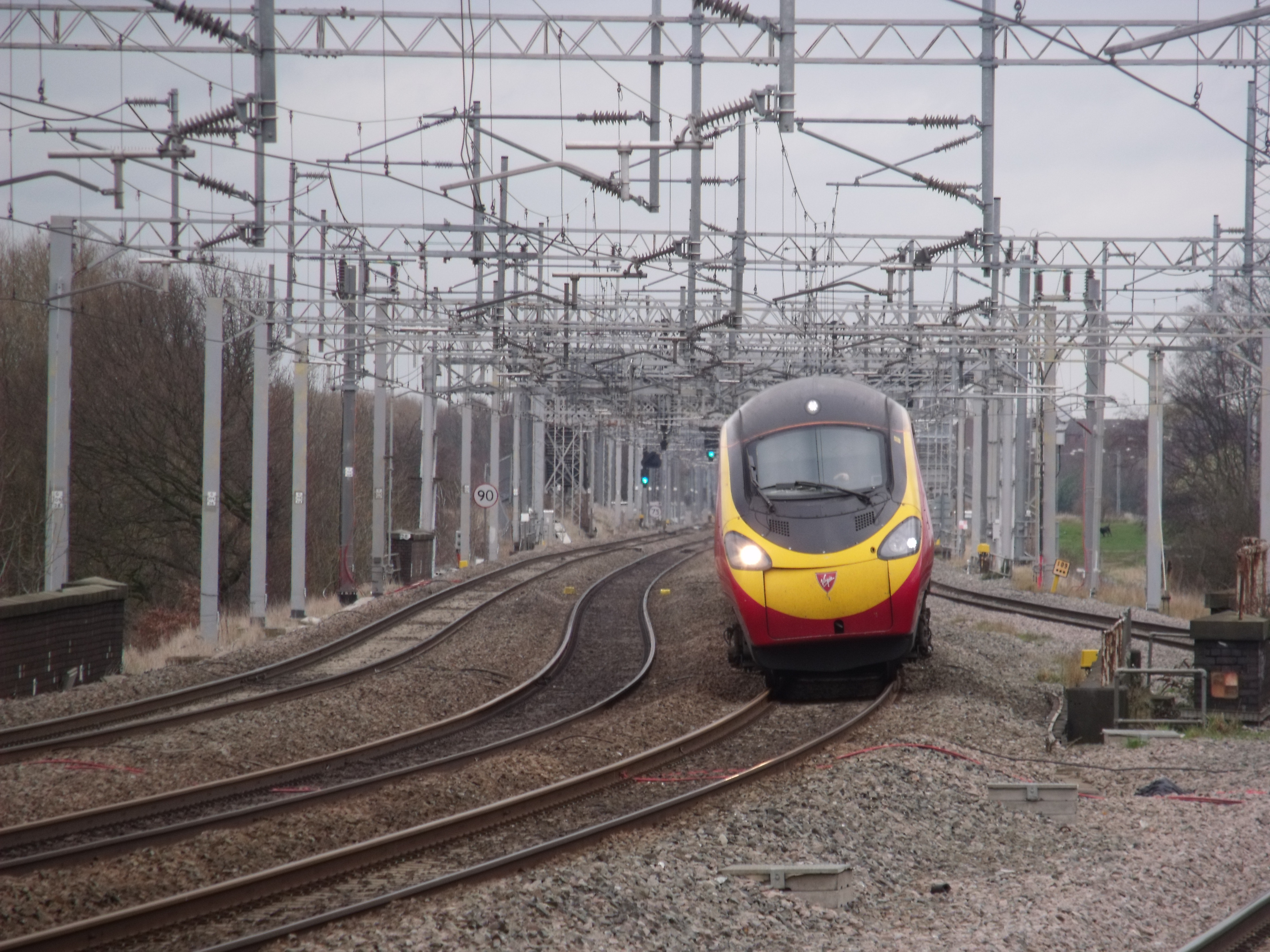 This is Tamworth Station - Low Level - serviced by fast trains on the West Coast Main Line to and from London Euston. I saw a Virgin Pendolino in the distance. Got this shot on a zoom in, before it whooshed past Tamworth at high speed! You could feel it. A Class 390. Am unsure which one it was though. Heading north.